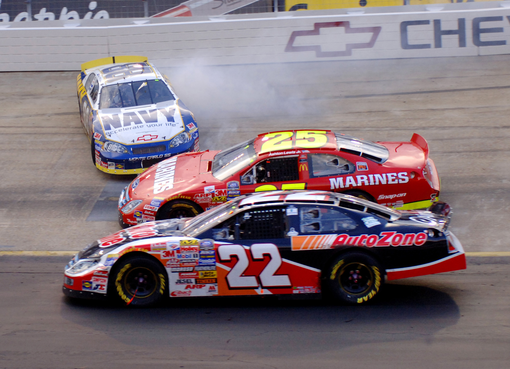 060325-N-5345W-206 Bristol, Tenn. (March 25, 2006) - The number 88 Navy Chevrolet Monte Carlo driven by Mark McFarland slides across the track in turn two during the NASCAR Busch Series Sharpie Mini 300 at Bristol Motor Speedway. McFarland started the race at the number 19th position and finish 31st. U.S. Navy photo by Kristopher Wilson (RELEASED)